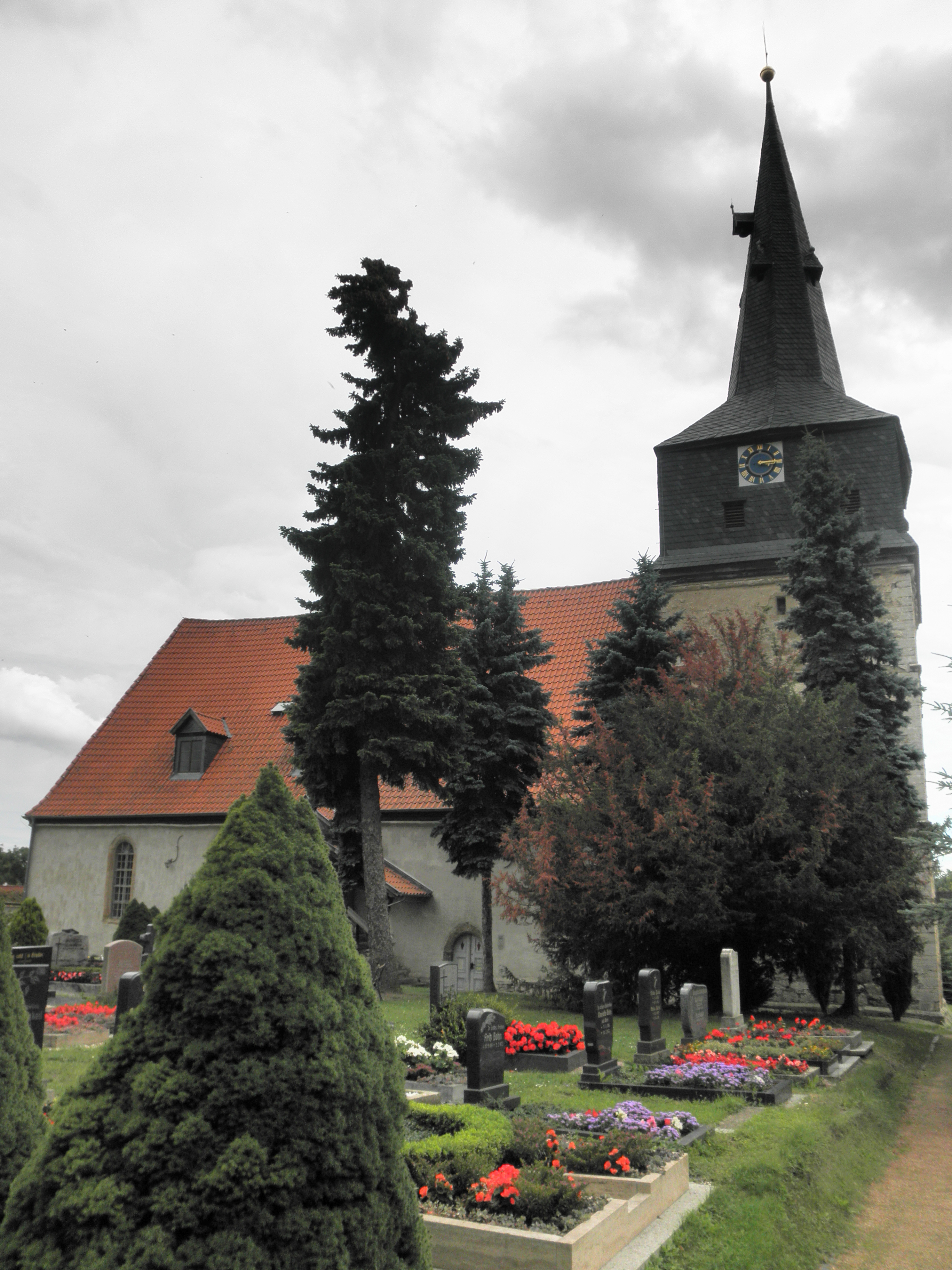 Church in Kirchheilingen in Thuringia